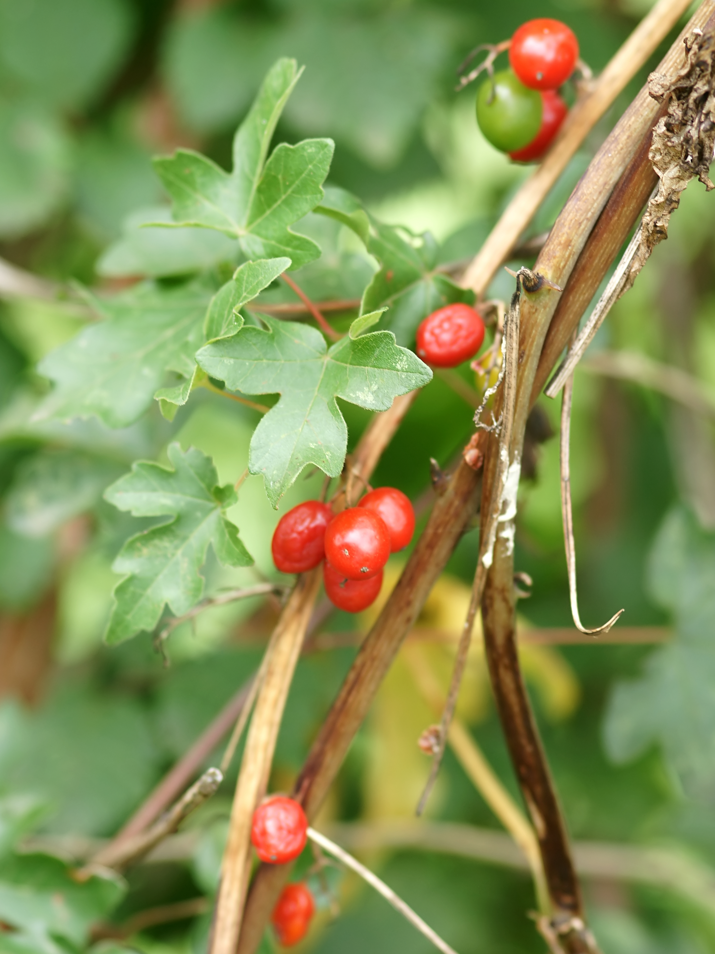 Black Bryony close to Pleuville, Charente, France